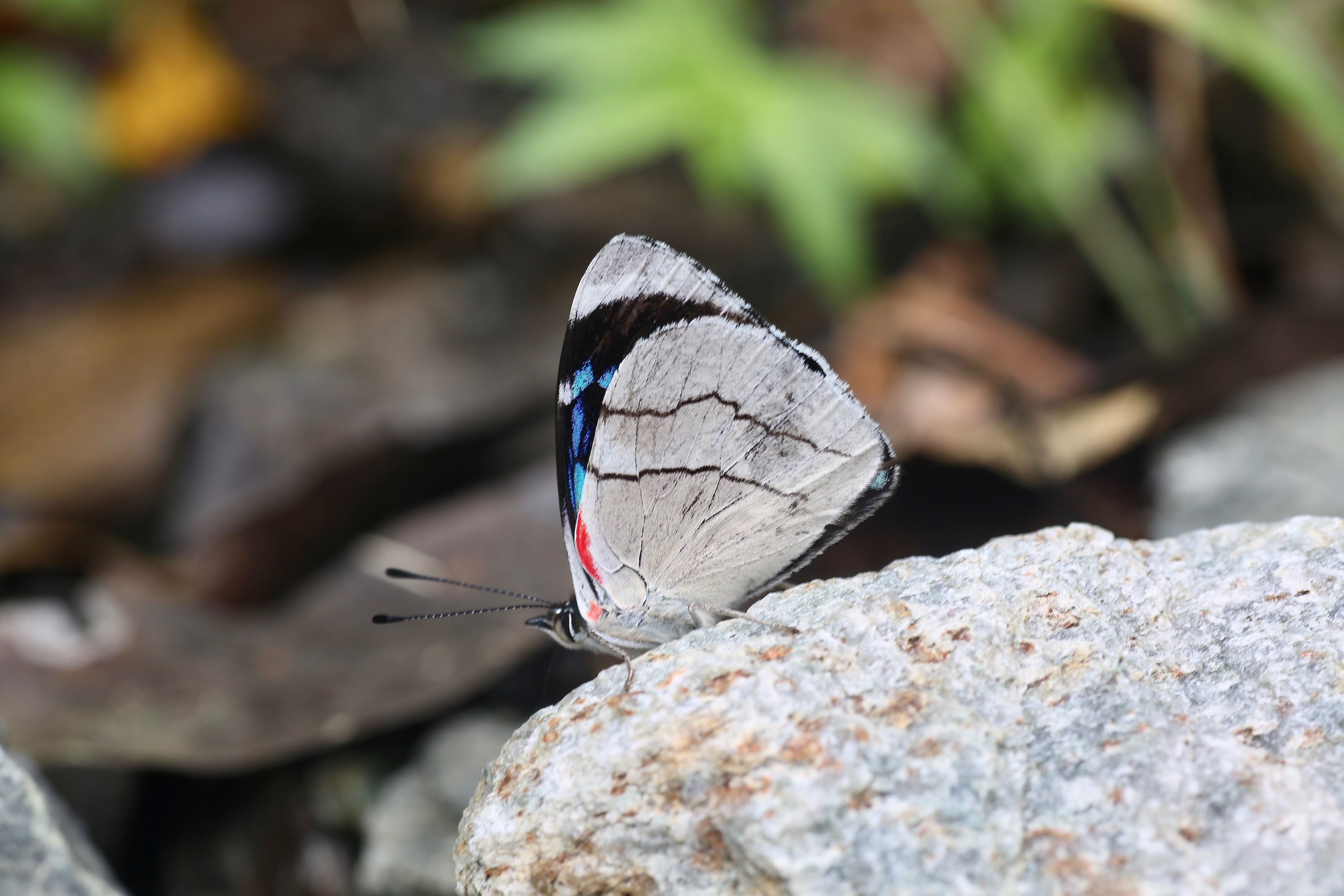 Ecuador, Tungurahua, El Topo, Río Zuñag.